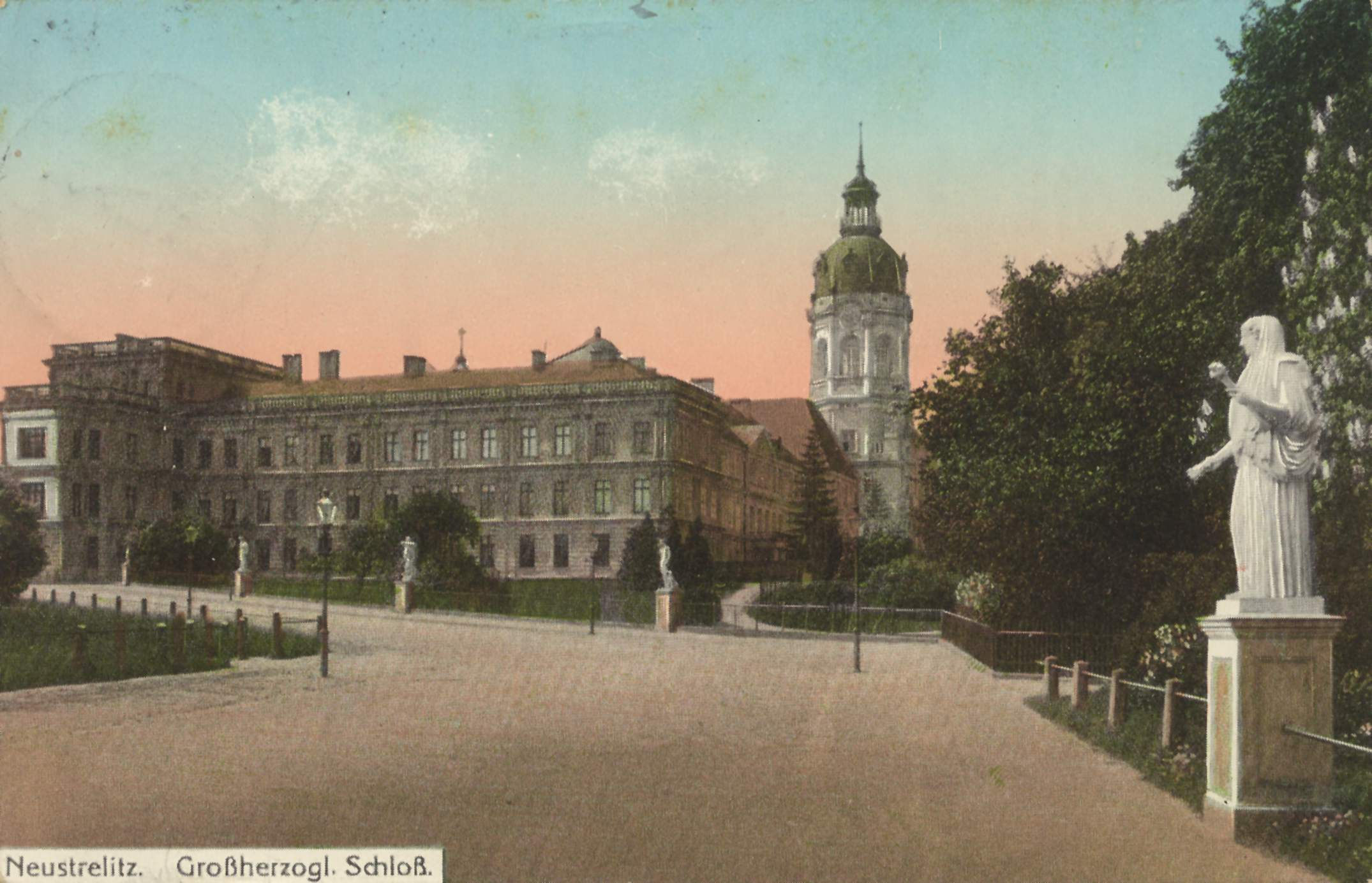 Postcard from 1912 showing the castle of Neustrelitz.